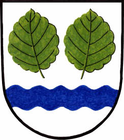 Coat of Arms of Buchholz (Aller)